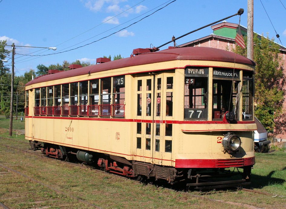 1929 Canadian Car & Foundry double-truck, double-end electric passenger streetcar seen here at the Connecticut Trolley Museum. It is ex-Montreal Tramways Company car 2600.